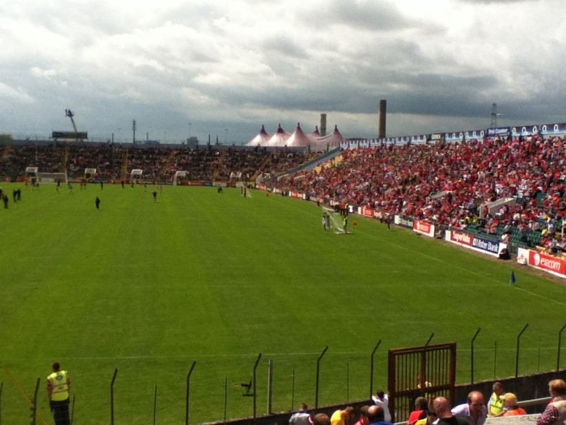 Cork vs Kerry Munster Semi Final 2012